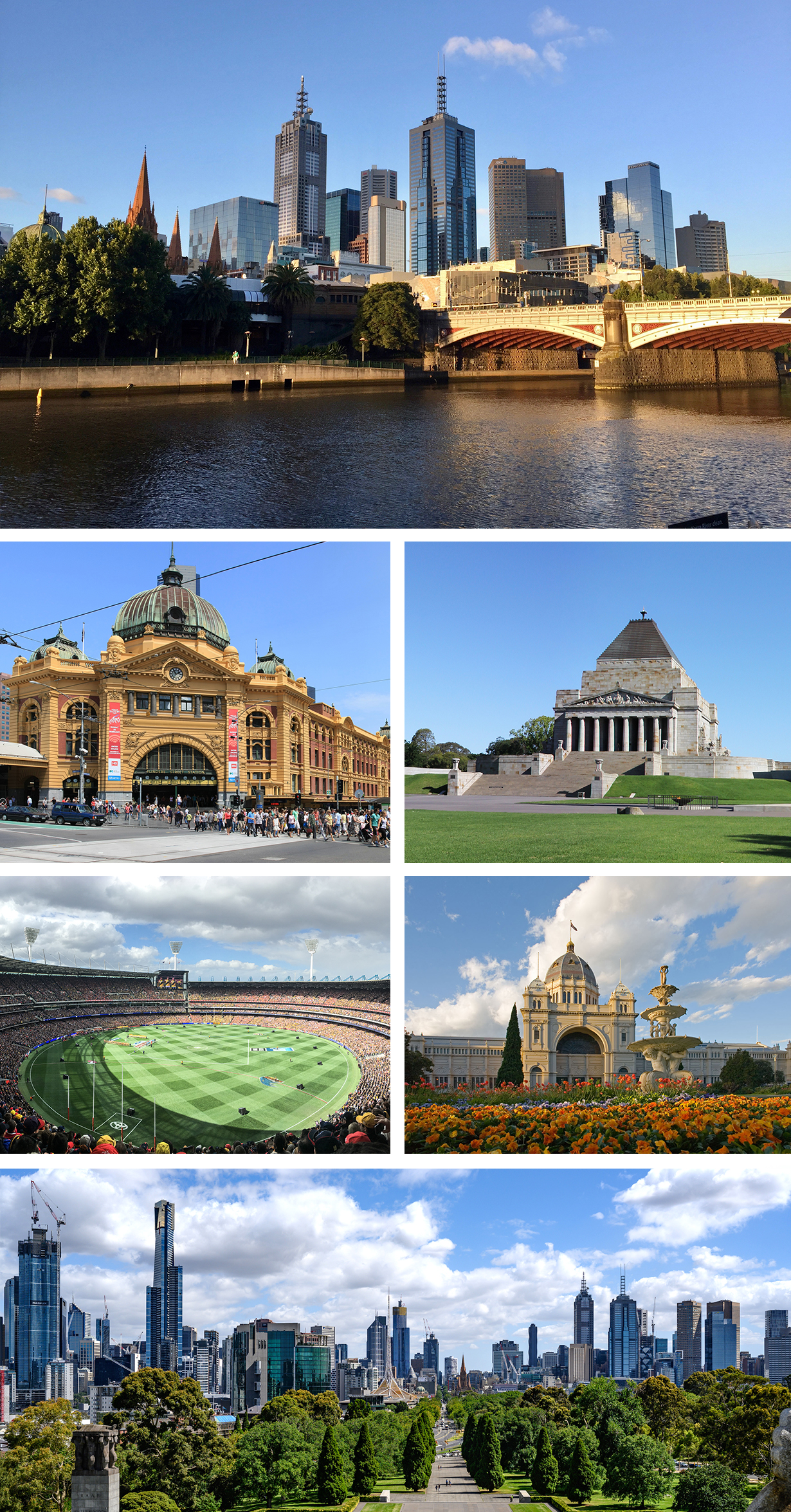 New 2019 montage for Melbourne city page Images from top, left to right: Melbourne's eastern CBD skyline viewed from Southbank File:City of Melbourne skyline from Southbank with Princes Bridge and St Pauls, 2018.jpg Author, Gracchus250 Flinders Street Station from File:1 flinders st station melb.jpg Author, Adam.J.W.C. Shrine of Remembrance File:Shrine of Remembrance 1.jpg Author, Donaldytong Melbourne Cricket Ground from File:2017 AFL Grand Final panorama during national anthem.jpg Author, Flickerd Royal Exhibition Building from File:Royal_exhibition_building_tulips_straight.jpg Photograph taken by Diliff and straightened by Ikiwaner Melbourne's skyline viewed from the Shrine of Remembrance, 2019 File:Melbourne as viewed from the Shrine, January 2019.png Author, Bengt Nyman Previous photos: Tram on Bourke St from File:C2.5113 bourke, 2014(3).jpg Author, Bahnfrend Melbourne's skyline viewed from the Shrine of Remembrance, 2015 File:Melbourne city skyline in January 2015.jpg Author, Francisco Anzola